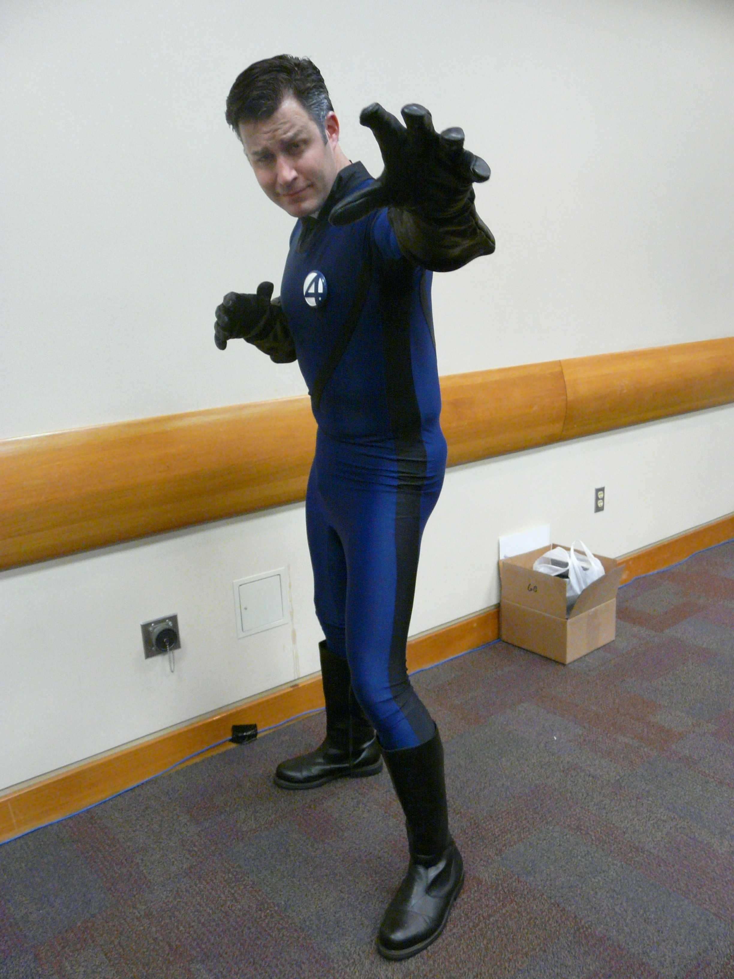 Picture of Gen Con Indy 2008 in Indianapolis, Indiana, USA. Mr. Fantastic